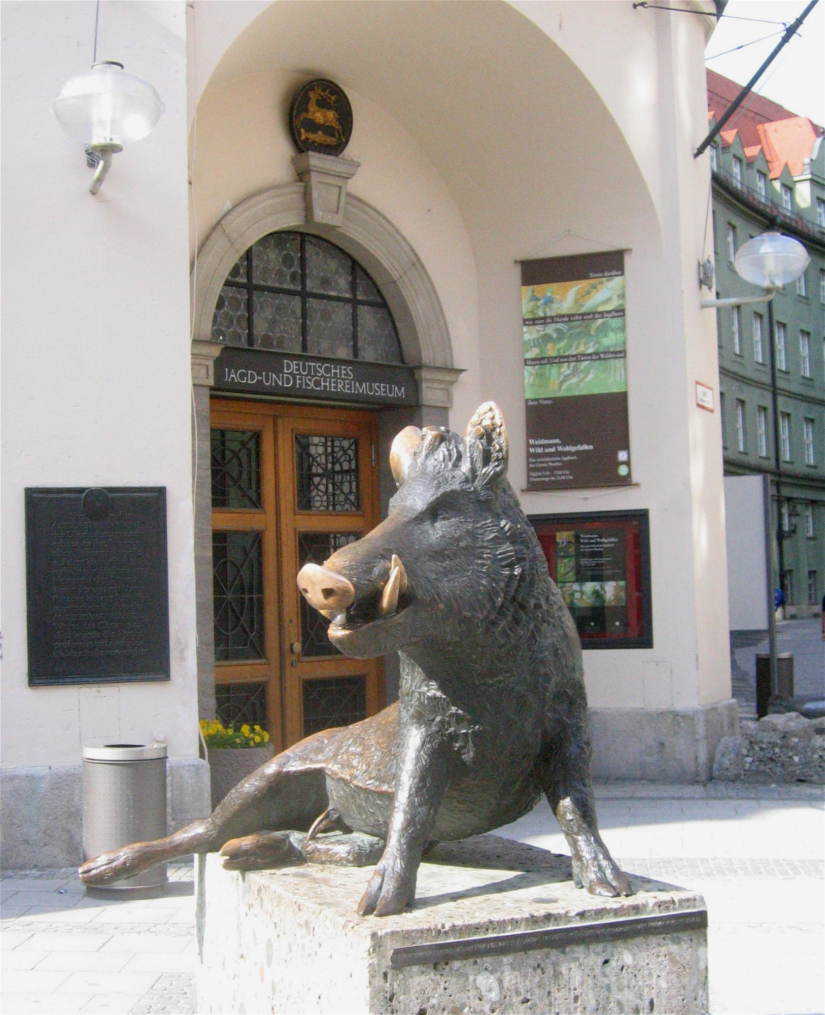 Entrance of the Deutsches Jagd- und Fischereimuseum in Munich, Germany.